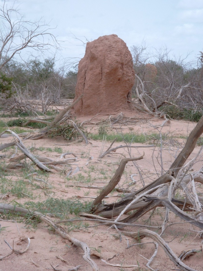 Termite mound and dead trees in the senescence zone of a vegetation band in tiger bush, Burkina Faso.